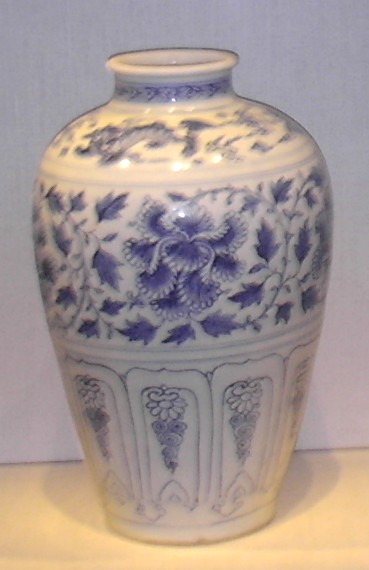 A 15th century Vietnamese stoneware vase, originating from the Red River Delta region during the Later Le Dynasty. The stoneware has a cobalt-blue decoration under a colorless glaze, along with an iron-brown slip on the base. From the Freer and Sackler Galleries of Washington D.C. Author: User:PericlesofAthens Date: August 3, 2007